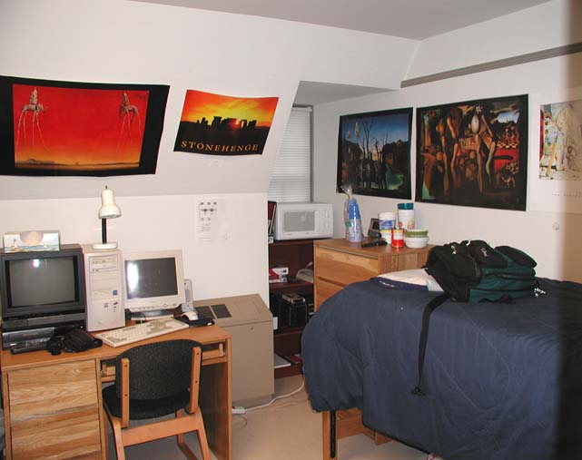 My sophomore dorm room. (Sharp hall, University of Delaware) Picture taken Fall, 2002... I hereby release it under the GFDL.